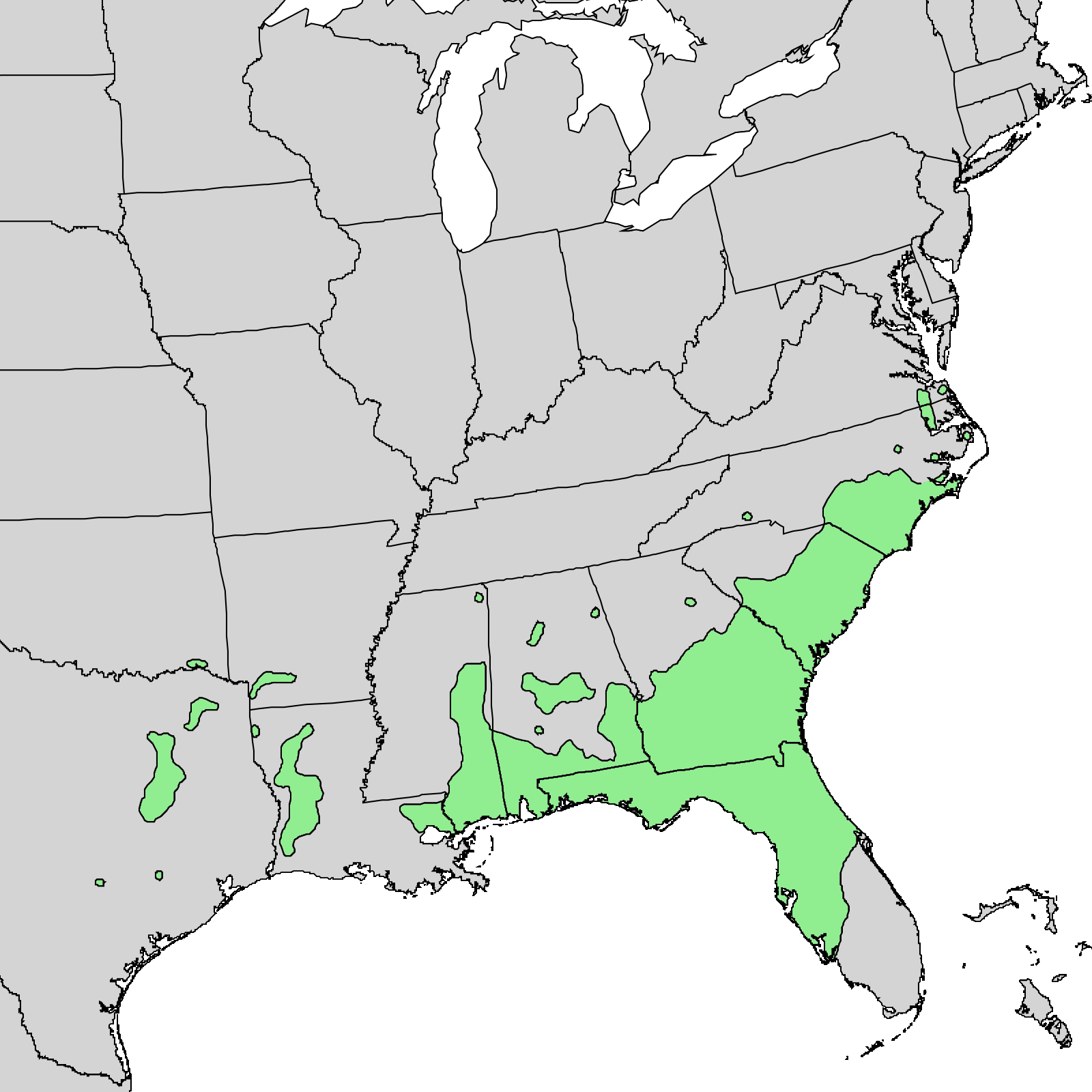 Quercus incana (bluejack oak) range map